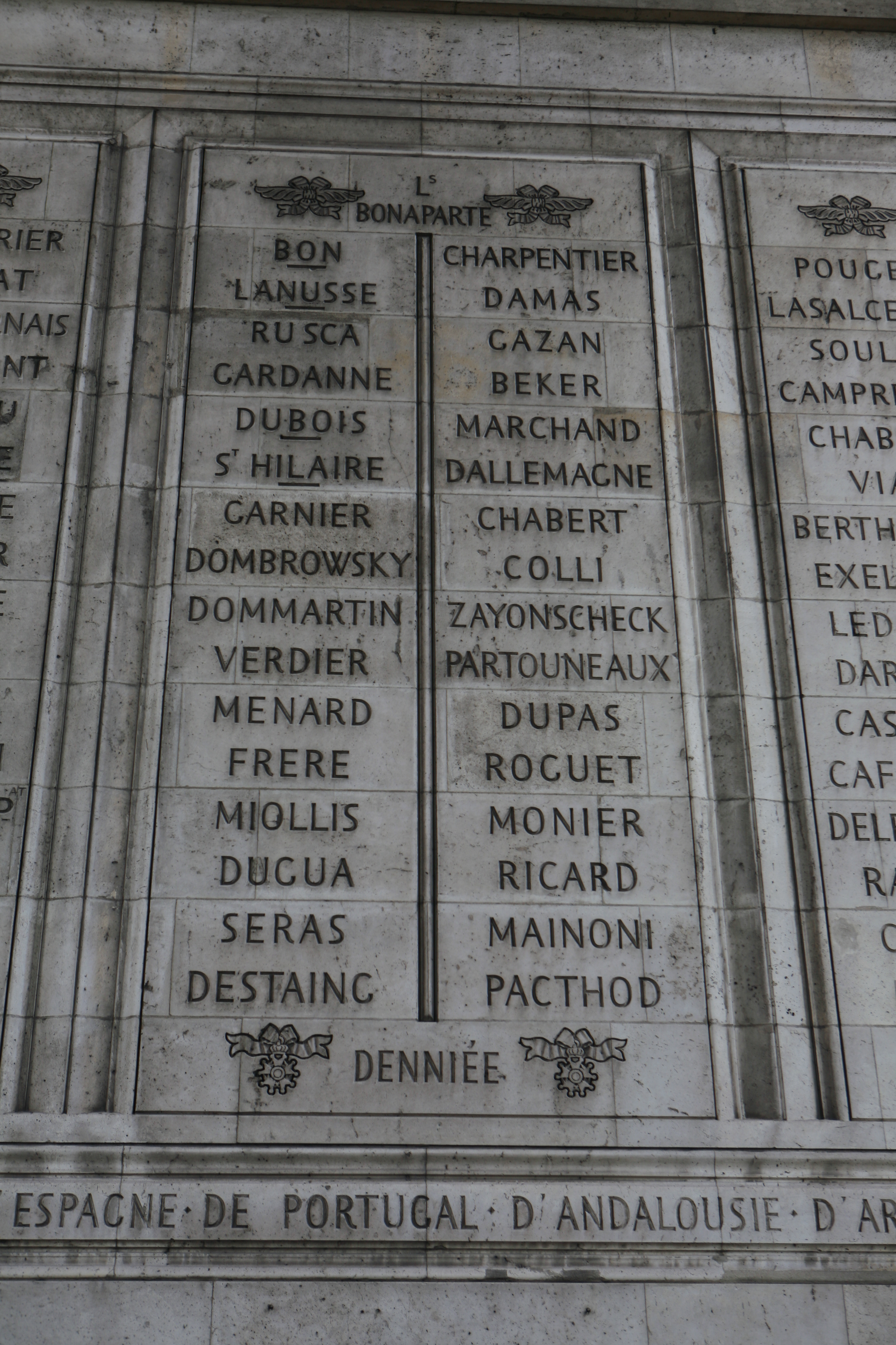 Inscriptions of the Arc de Triomphe, Southern pillar, Columns 25, 26